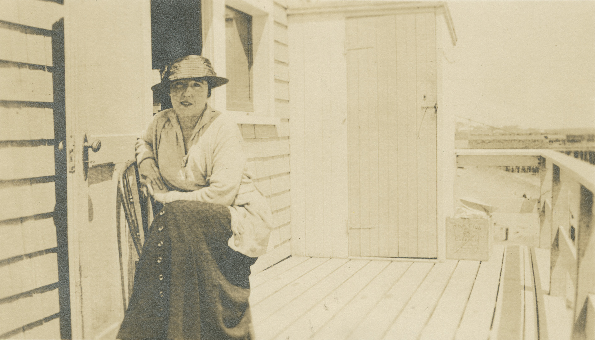 Photograph of Ethel Mars